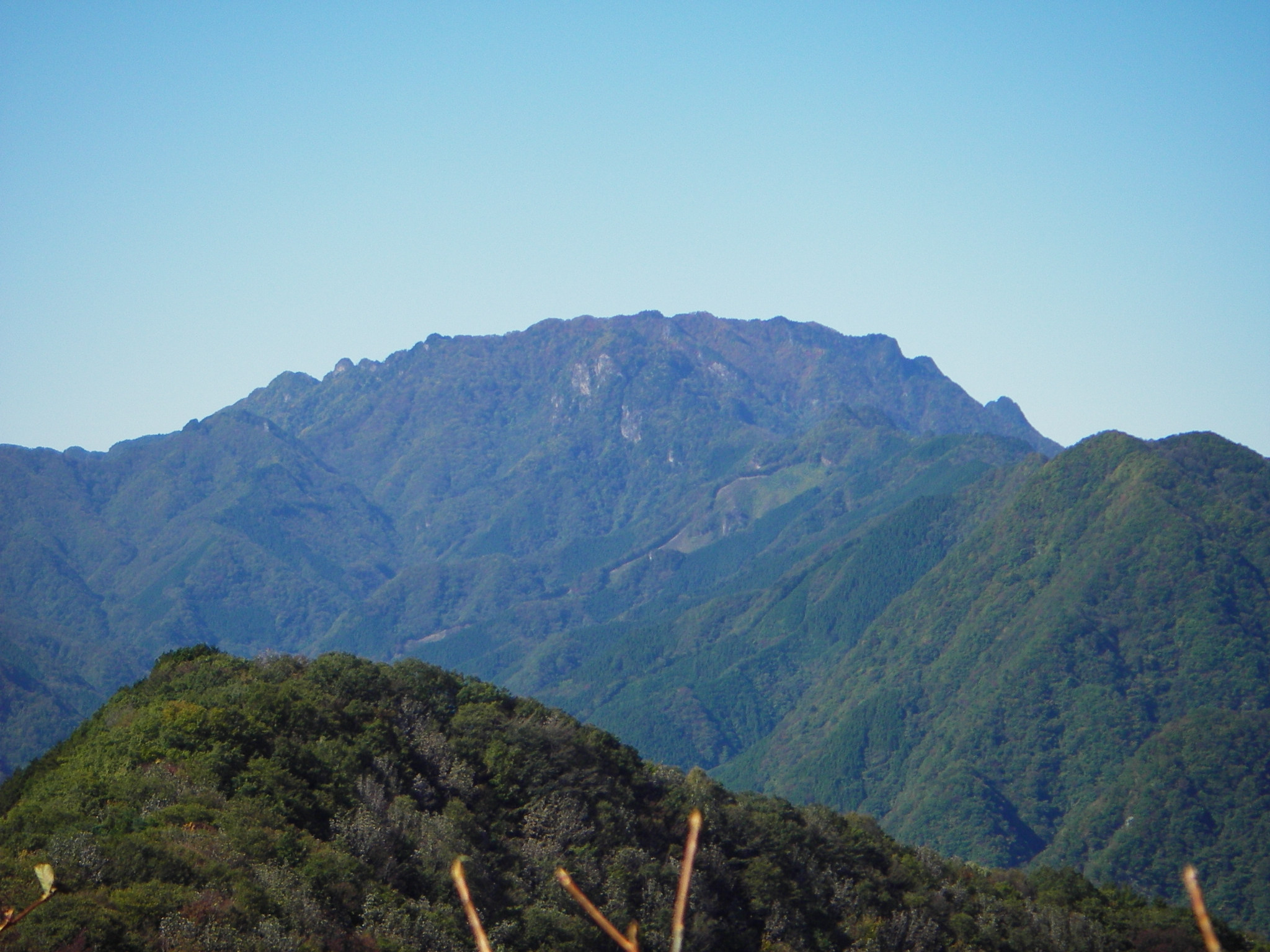 The SE side of Mount Ryōkami in Ogano village (Saitama prefecture, Japon).